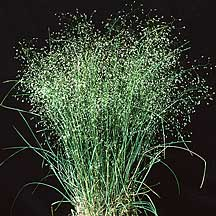 Photo of Indian ricegrass bunch showing decorative-looking seedheads. Achnatherum hymenoides